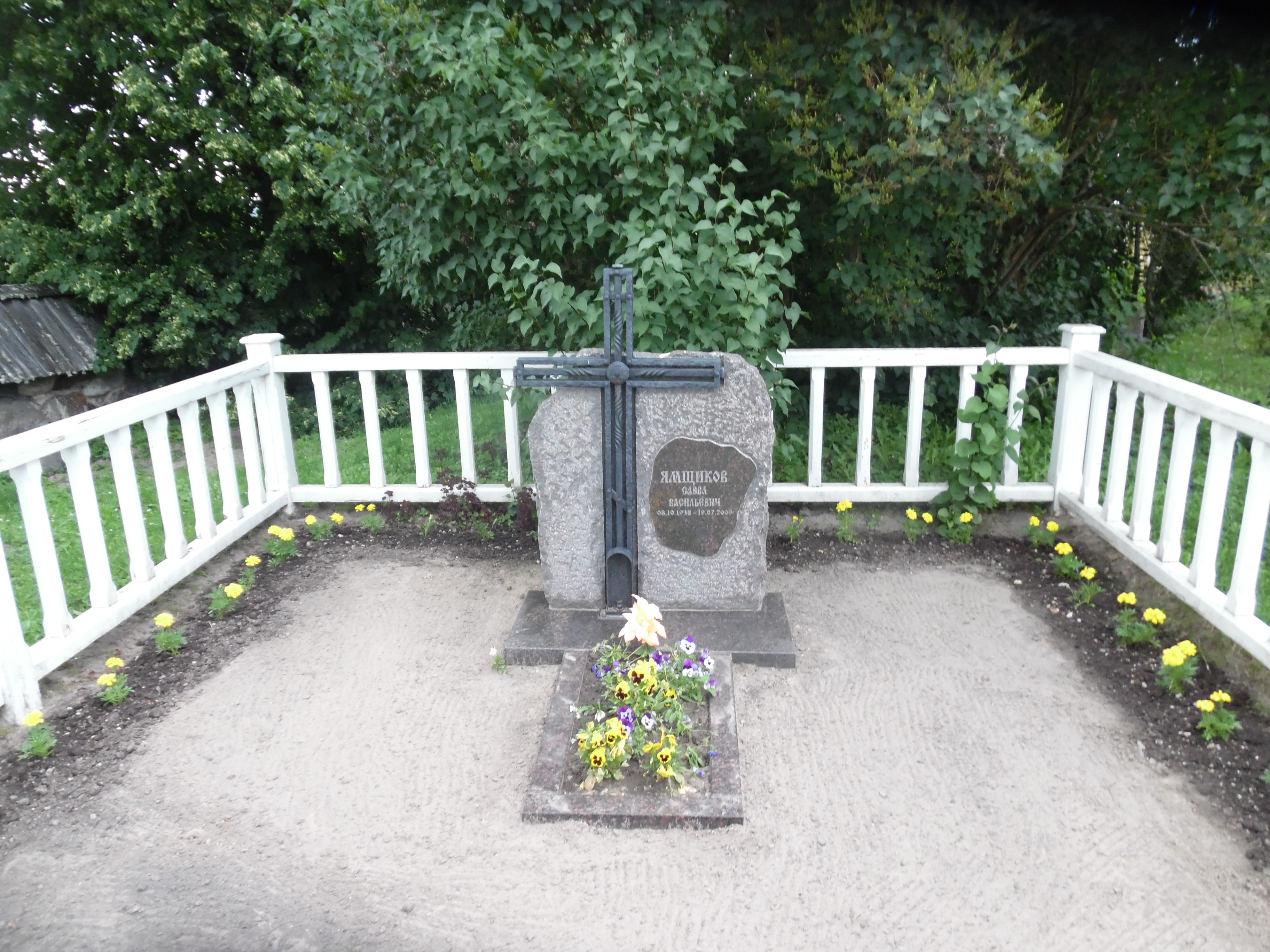 The tomb of Jamschschikov at the Voronich hill